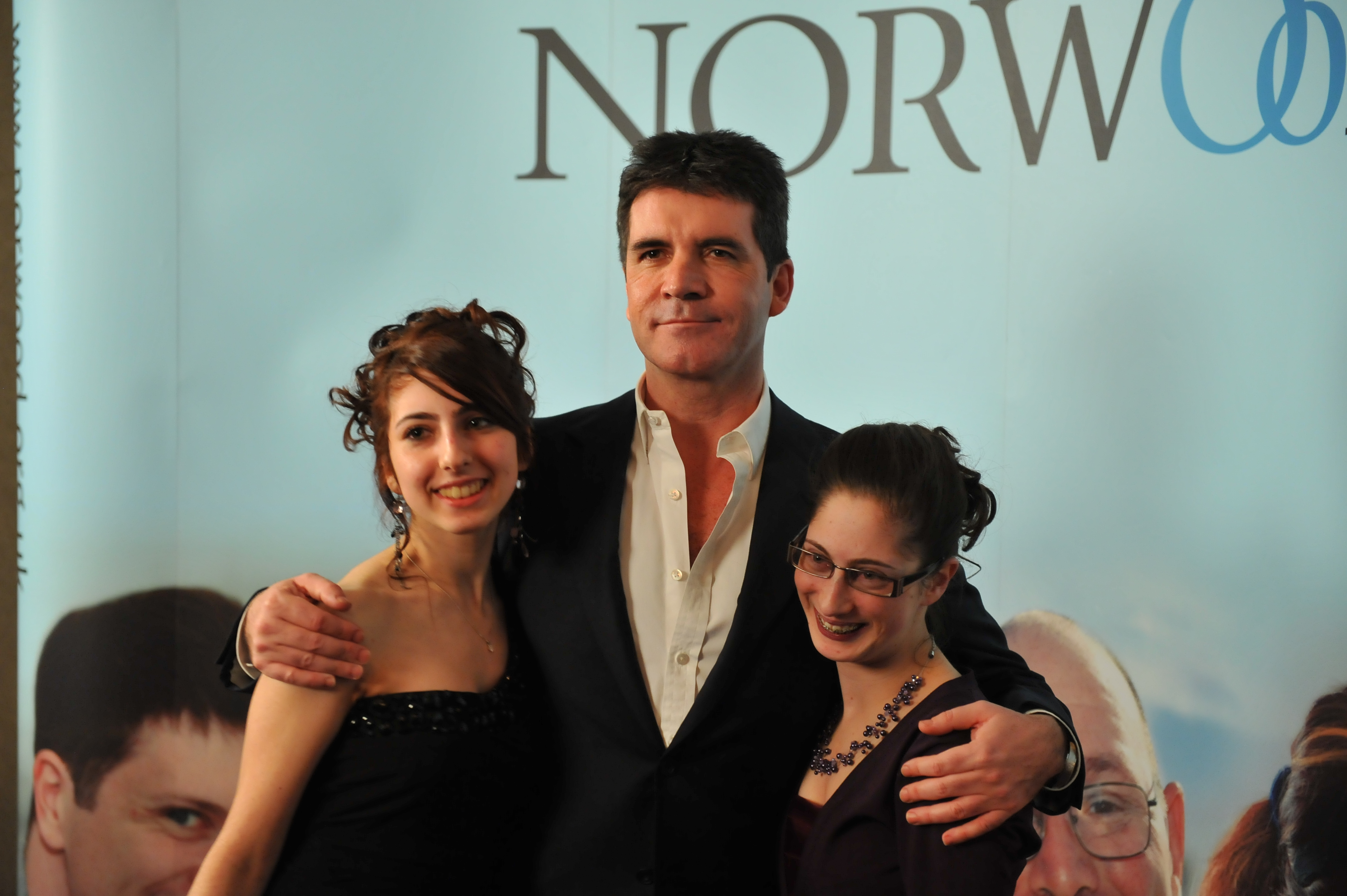 Simon Cowell with a Norwood service user at the annual dinner 2010.